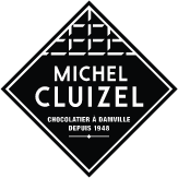 Michel Cluizel Logo